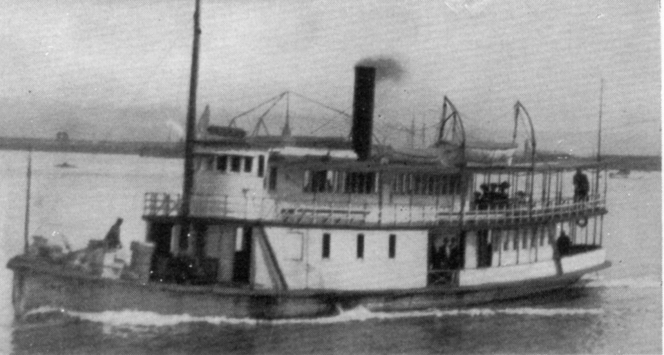 The steamer Crest, somewhere on Puget Sound.